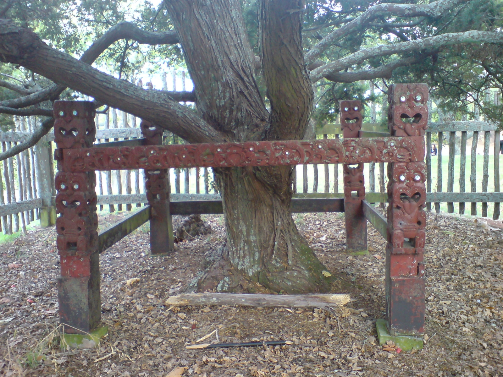 A relatively well-hidden Maori shrine in the top of Pukekawa, the volcanoe in the cente of the Auckland Domain in Auckland, New Zealand. Coordinates for the place where the photo was taken from are approximate only.